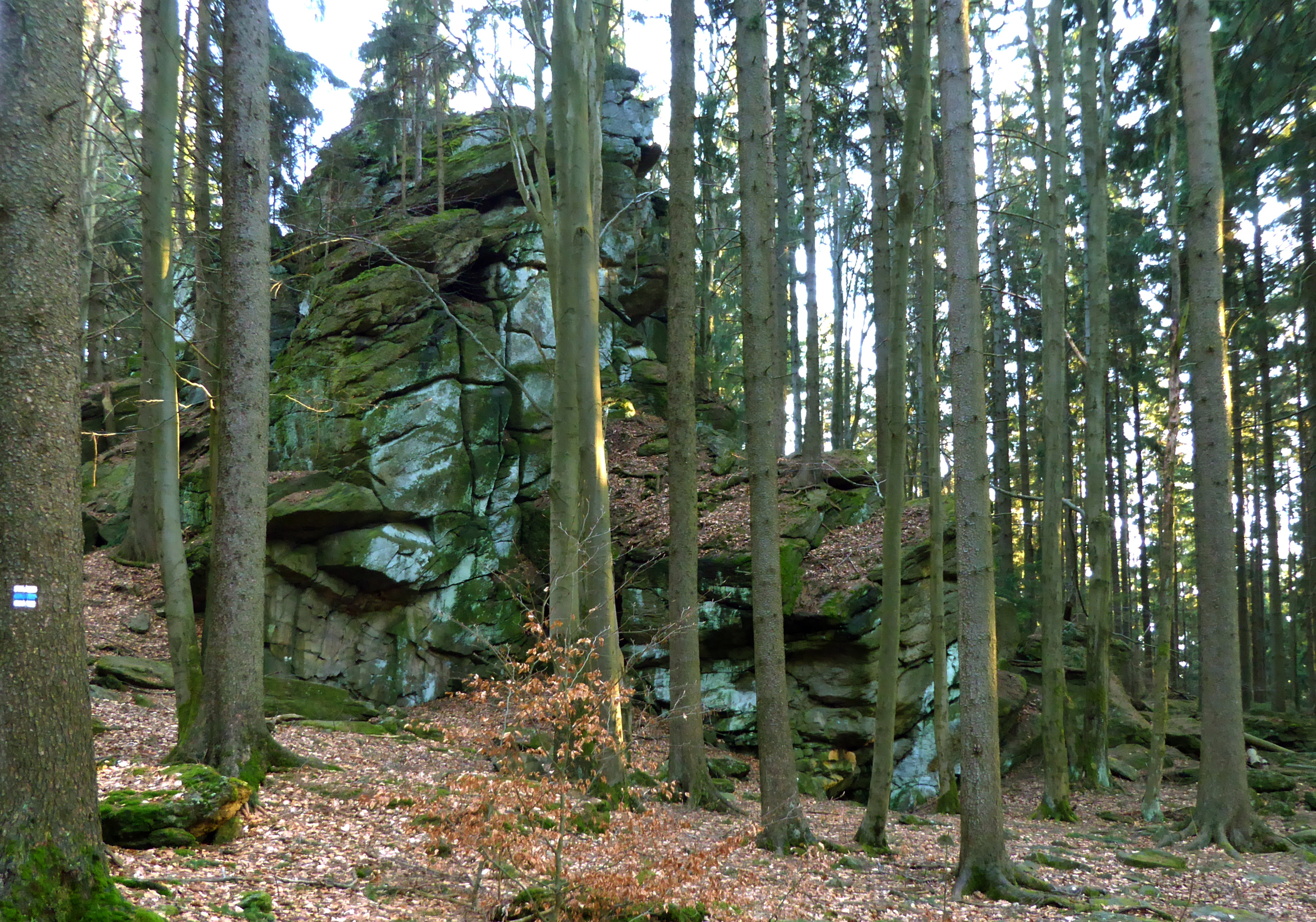 Rock group called Petrified Chateau, natural monument of Žďár Hills. The tourist trail of the Czech Tourists Club passes between the rocks (blue marking). View to the highest rock called Chateau Tower (765 m above sea level). Photo-location: Czechia, Vysočina Region, the town of Svratka, a group of rocks called Petrified Chateau (azimuth 180°).